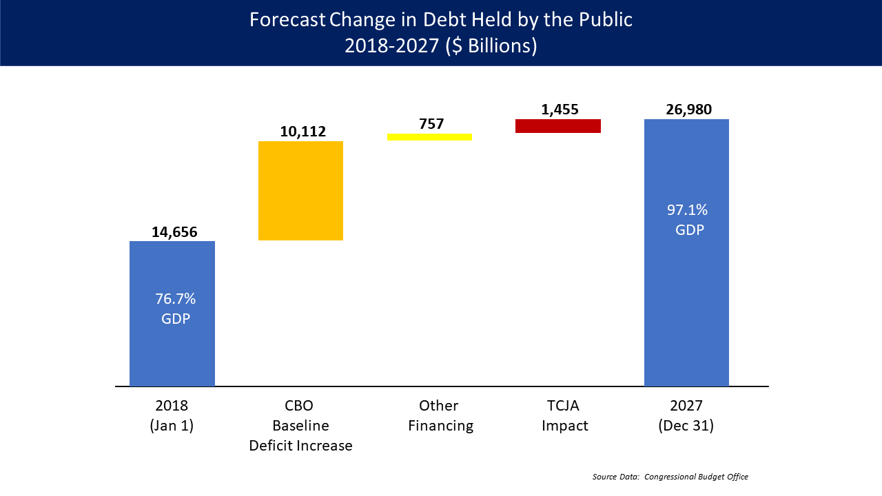 CBO forecast that the Tax Cuts and Jobs Act would add $1.4 trillion to the debt held by the public over the 2018-2027 period, excluding macroeconomic feedback effects. This is in addition to sizable debt increases already in the June 2017 policy baseline. The ratio of debt to GDP also rises from around 77% GDP to 97% GDP.